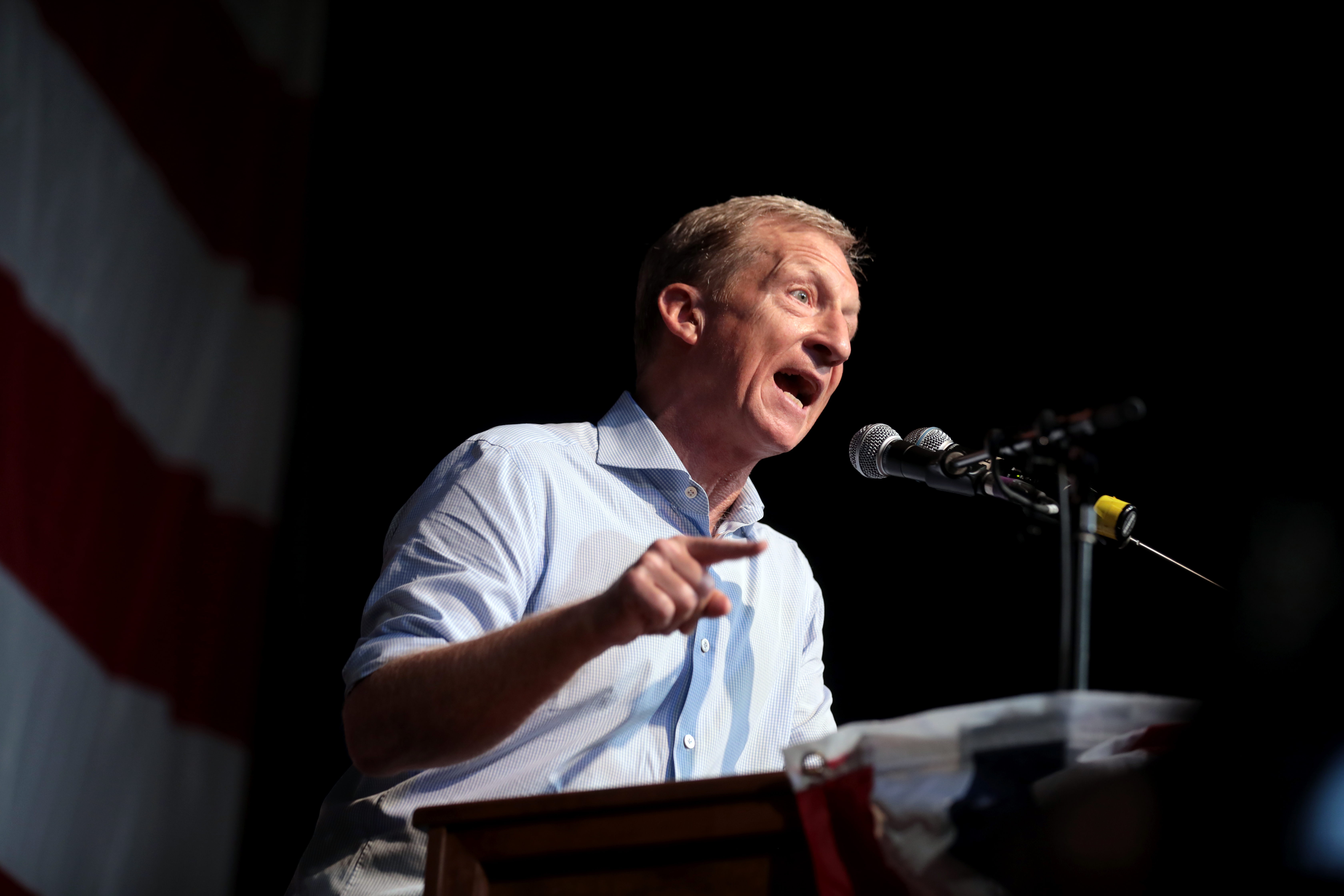 Tom Steyer speaking with attendees at the 2019 Iowa Democratic Wing Ding at Surf Ballroom in Clear Lake, Iowa.